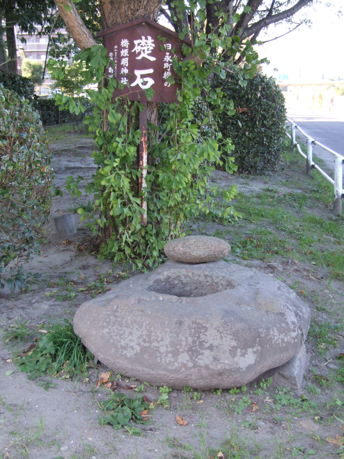 A foundation stone of the former Nagamachi Bridge of Hirose River. Nagamachi 1 chōme, Taihaku ward, Sendai, Miyagi prefecgture, Japan. At the side of Hashihime Myōjinsha (Bridge Lady Shrine) nearby west of the Hirose Bridge.